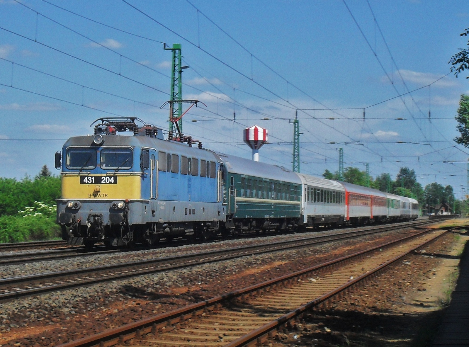 No. 272 European train, the Avala EuroCity in Üllő. The train went on indirect route, because of the track maintenance works on the Budapest-Kunszentmiklós railway line.